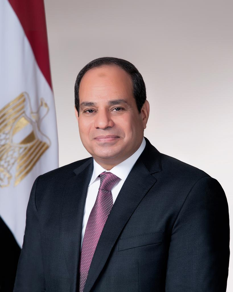 Egyptian President Abdel Fattah El-Sisi